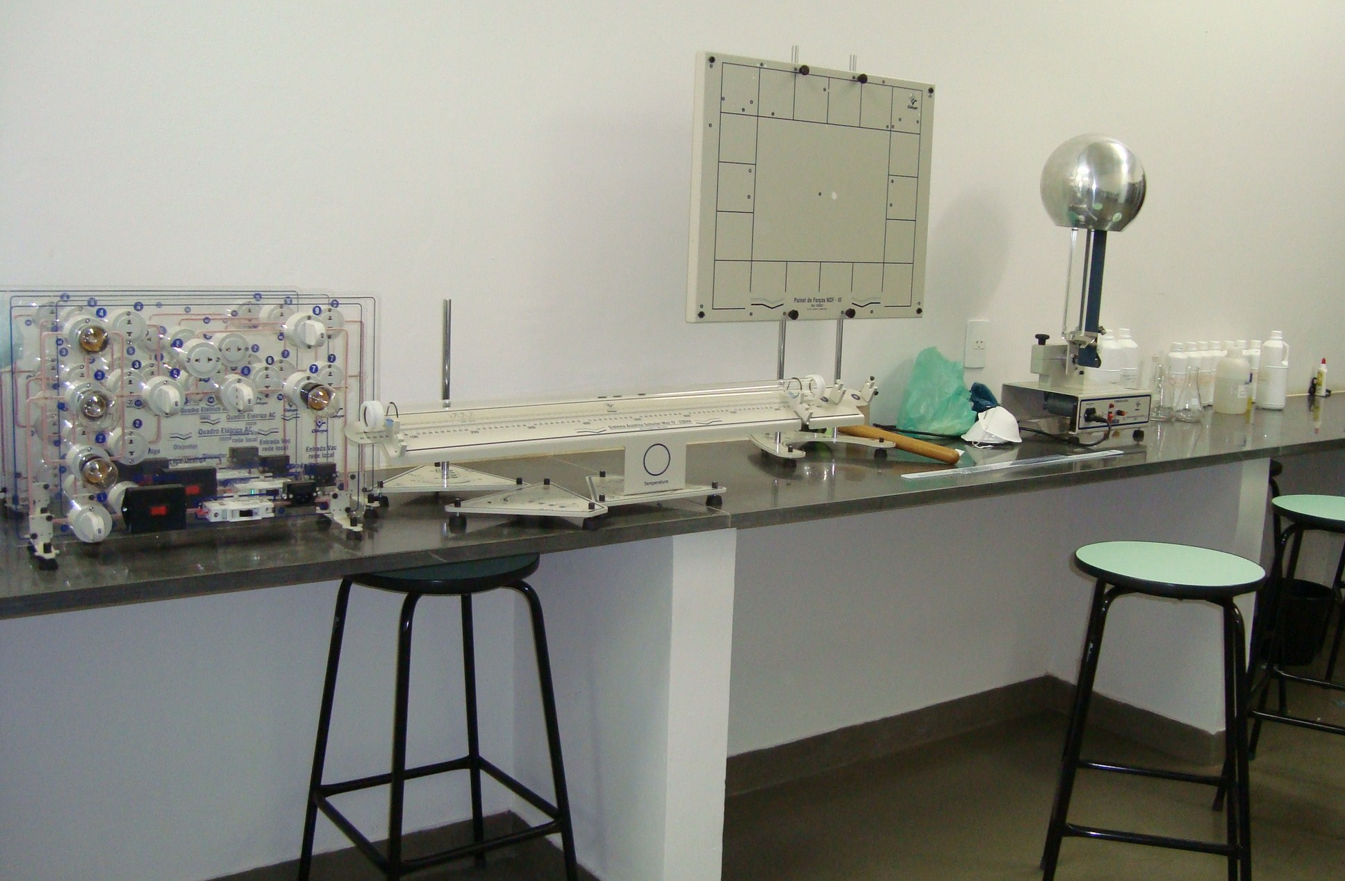 Physics and Chemistry laboratory in Alterosa, Minas Gerais, Brazil